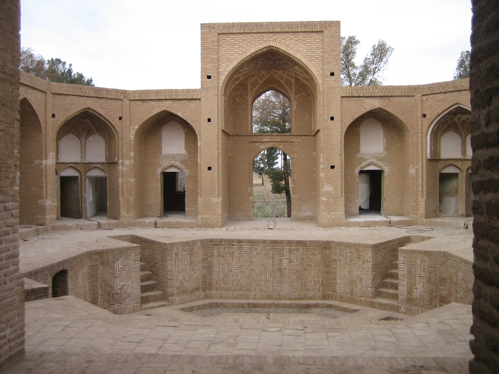 Inner View of the Religious School, Ferdows, Iran.